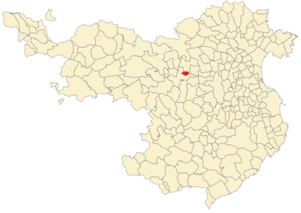 Besalú